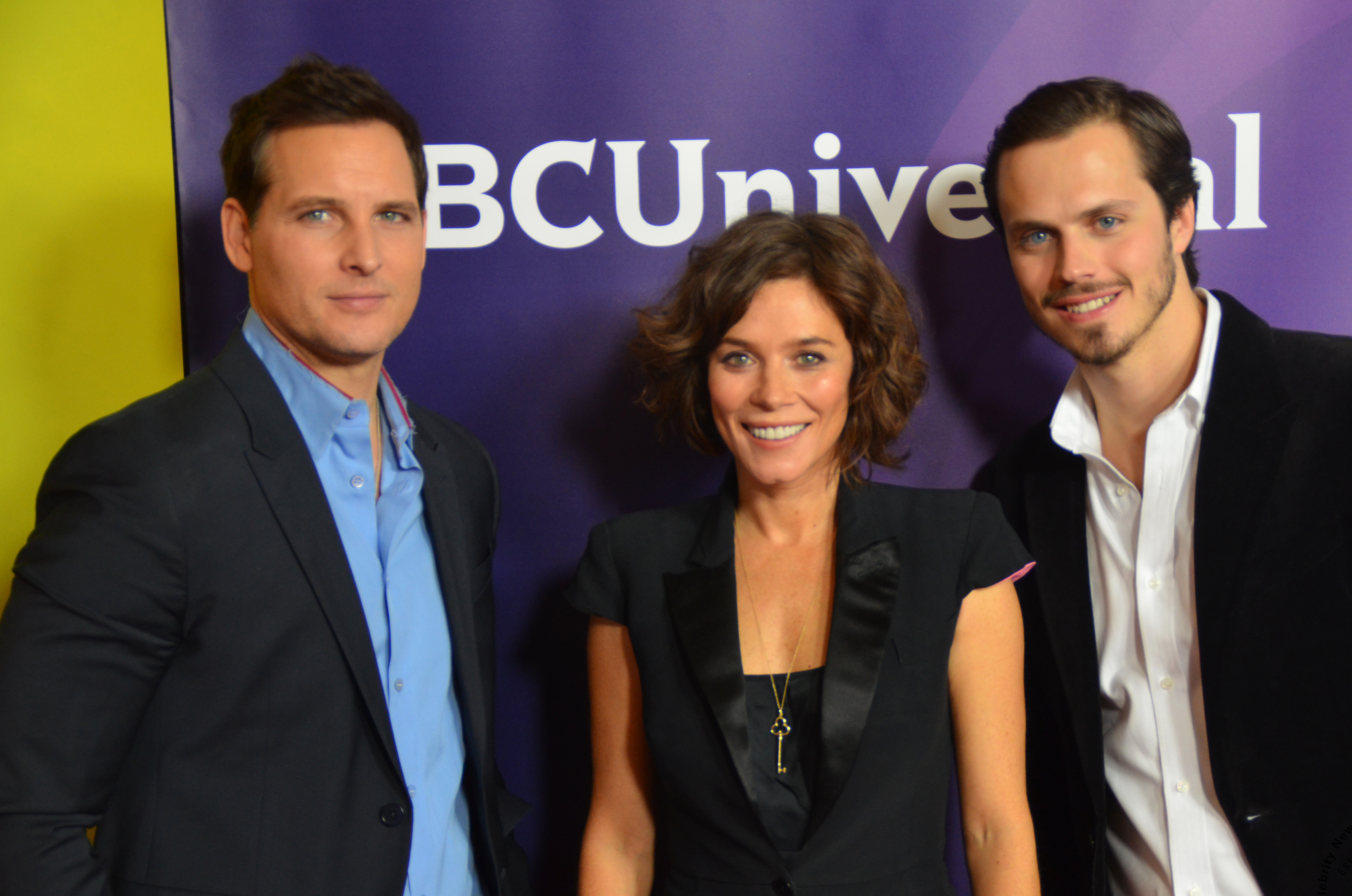 Peter Facinelli, Anna Friel & Jake Robinson at the 2015 Television Critics Association’s Press Tour (TCA2015) for the NBC Universal TV show announcements, interviews with cast and creators at The Langham Huntington Hotel in Pasadena, CA.